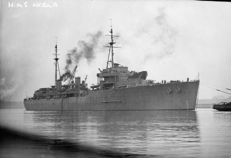 HMS Hecla Being towed.